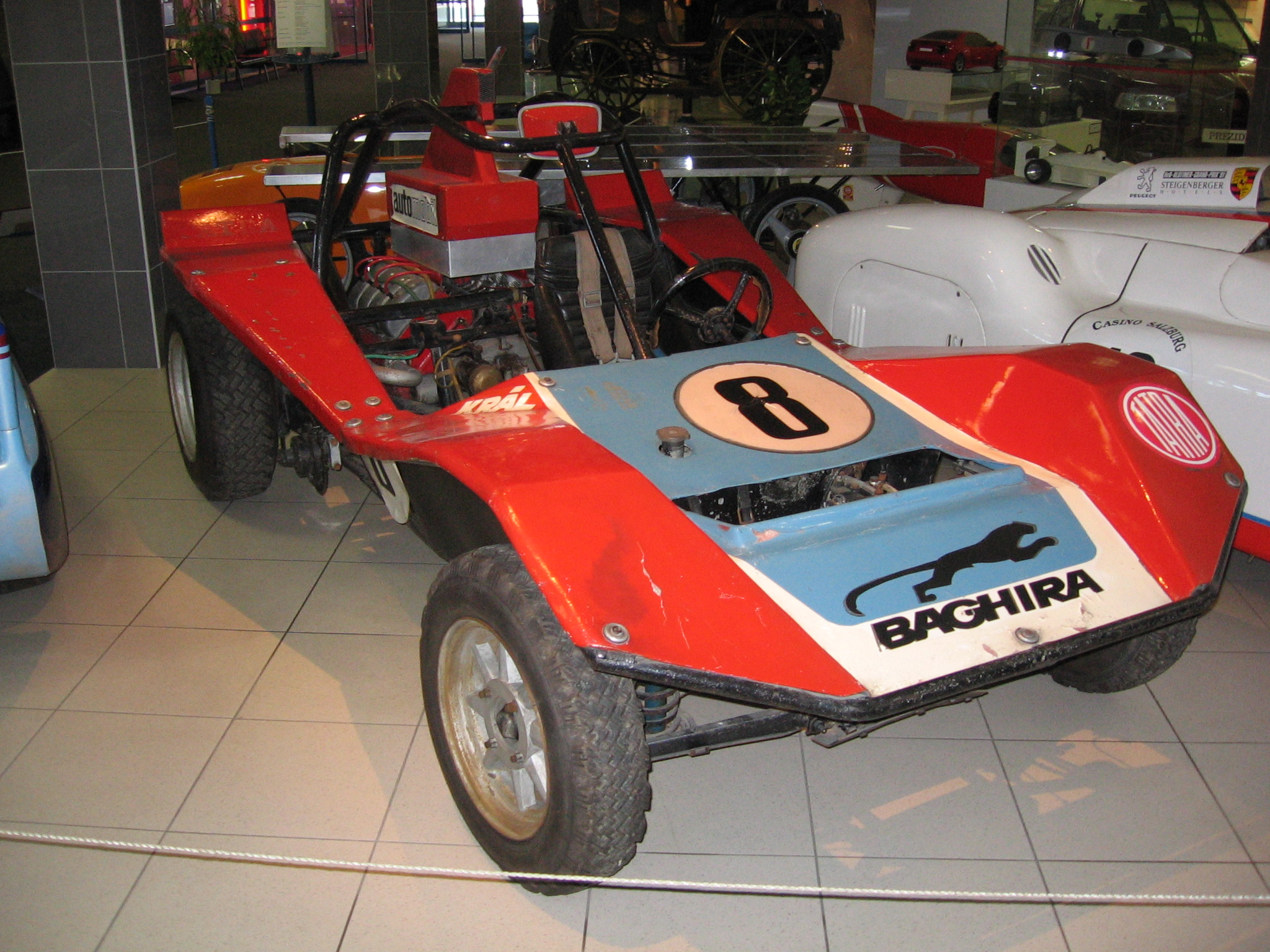 Tatra Baghira for autocross, taken in Technical museum Tatra in Kopřivnice, Czech Republic